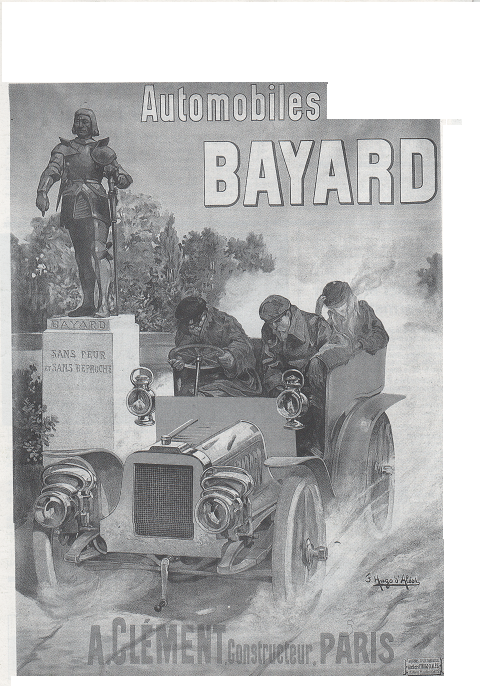 Low resolution copy of Clement-Bayard publicity poster - circa 1905. Original copyright holder is not known. Image is public domain as it was made and published over 100 years ago. Low resolution image is published at [1]